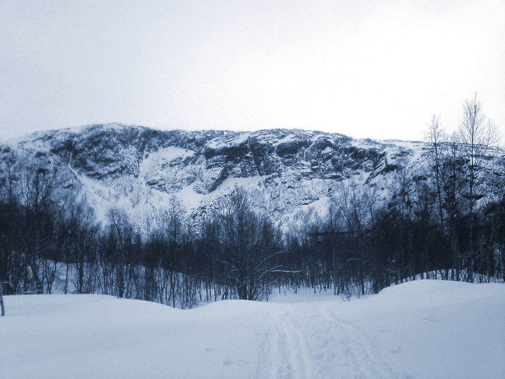 The mountain Katterat in Narvik, Norway. View from west towards East